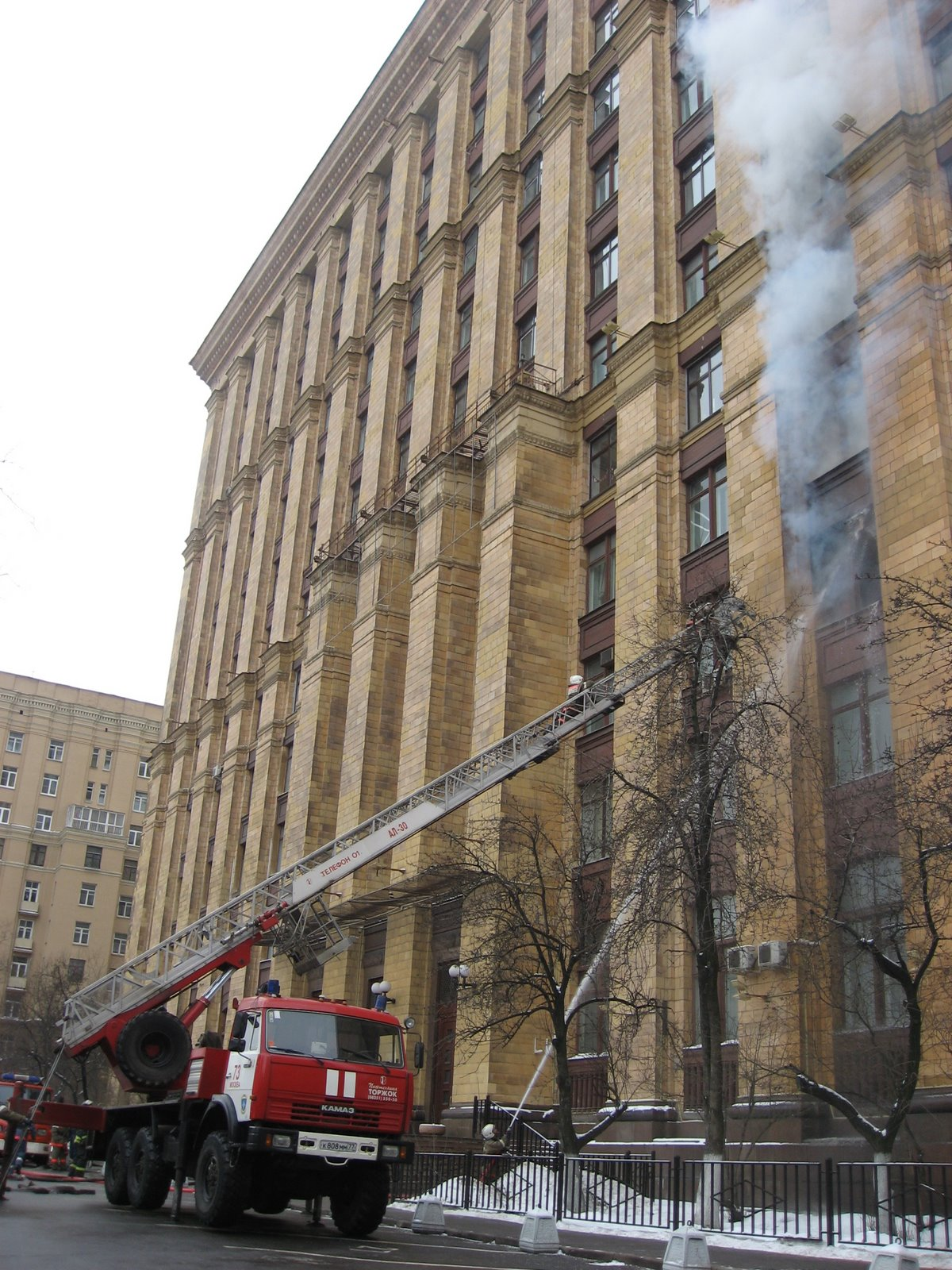 Firefighting in Moscow